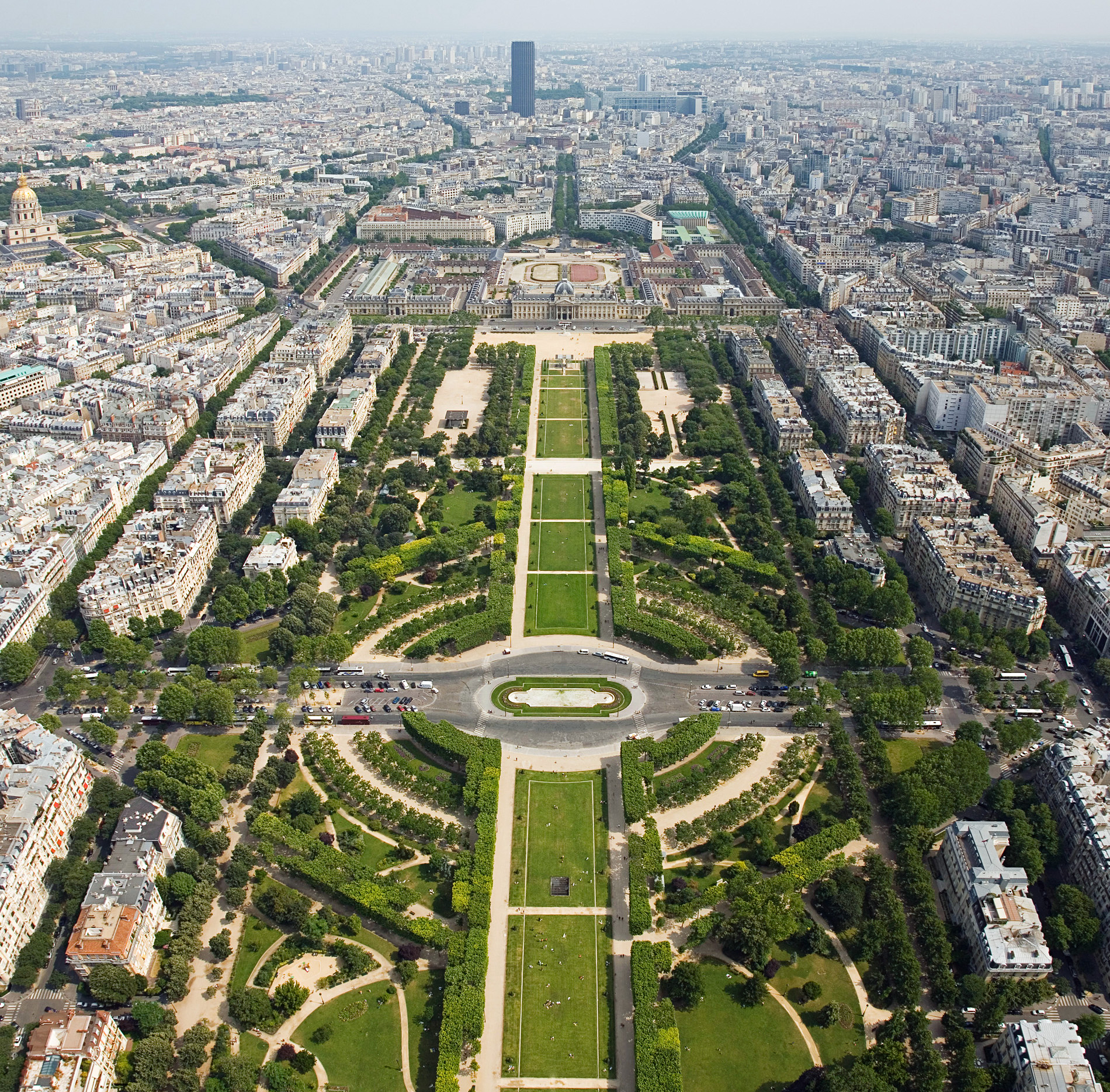 A two segment panorama of Champ de Mars from the Eiffel Tower. In the distance is Tour Montparnasse and the dome on the left is Les Invalides. This photo taken with a Canon 5D and 24-105mm f/4L IS.